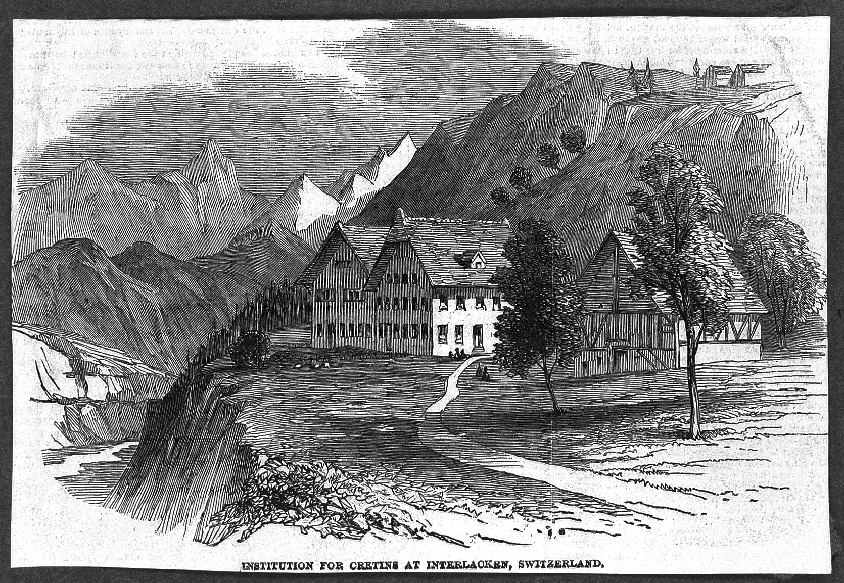 Institution for Cretins, Interlaken, Switzerland. Wood engraving. Iconographic Collections